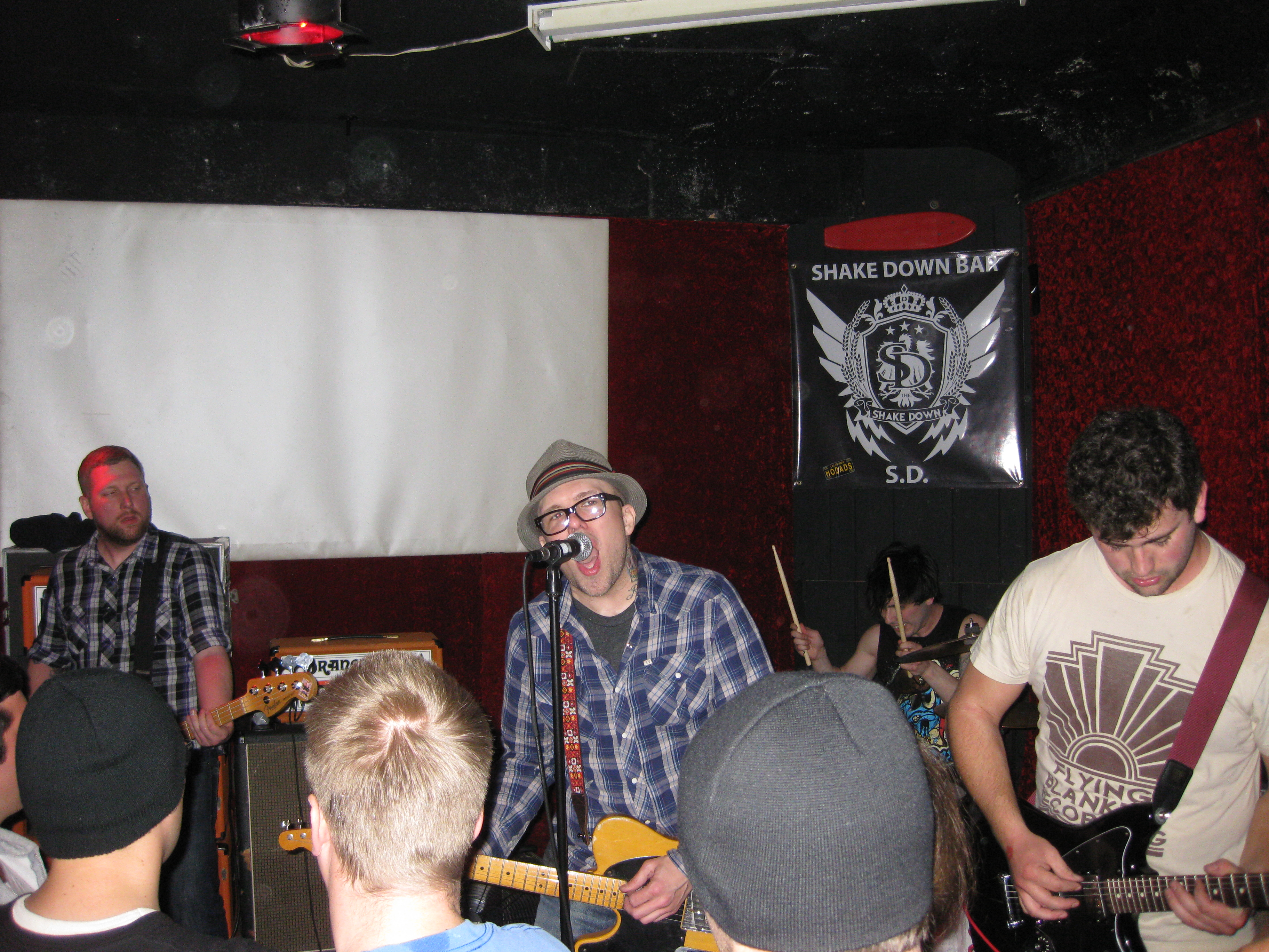 The Ataris performing March 25, 2012 at the Shakedown Bar in San Diego, California. Left to right: bassist Bryan Nelson, singer/guitarist Kris Roe, drummer Rob Felicetti, and guitarist Thomas Holst.